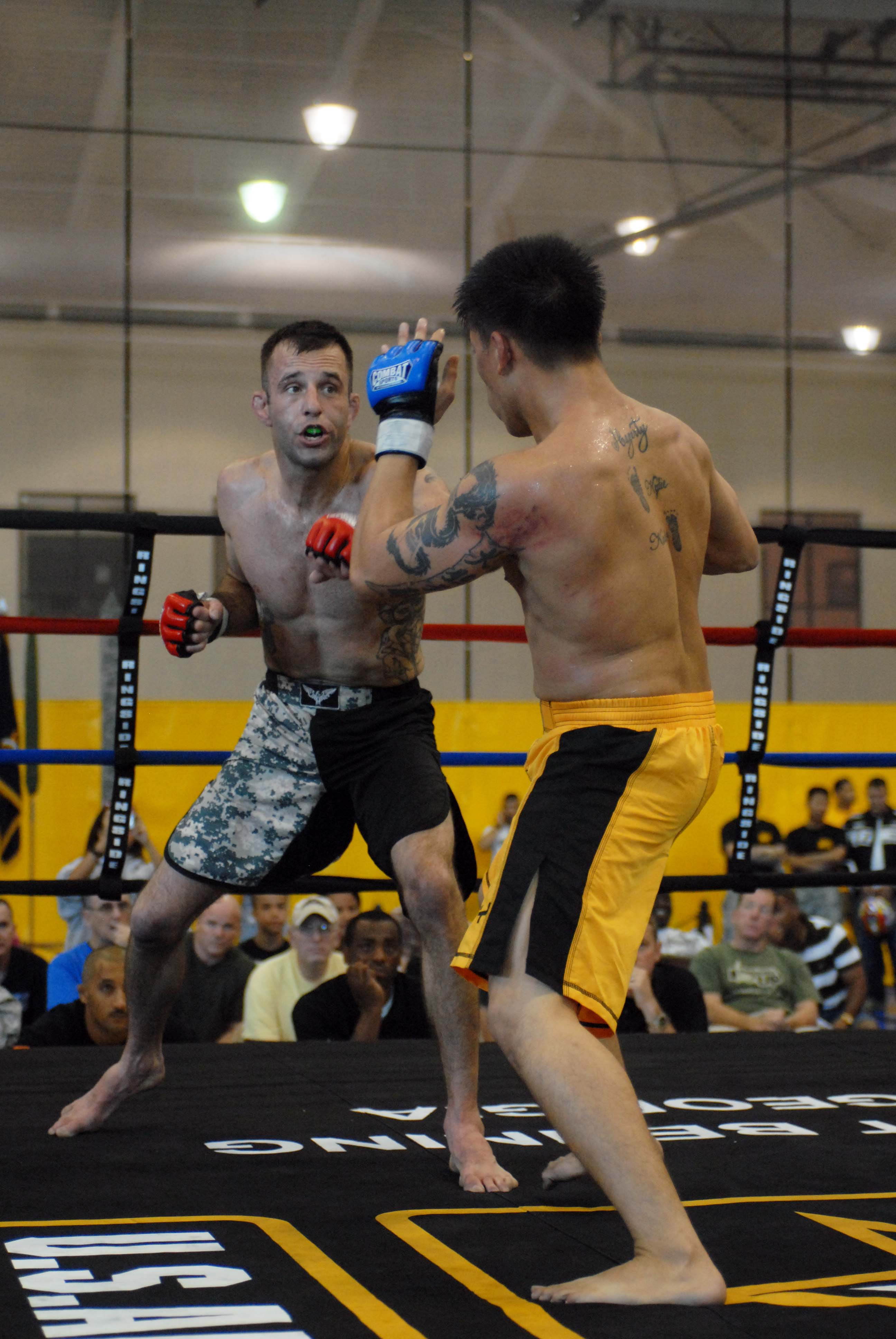 A total of 28 competitors made it to the finals. Of the 28 were Staff Sgt. Keith Bach of 3rd ID, Fort Stewart, Ga. (Left) and Staff Sgt. William Haggerty of 95th CA, Fort Bragg, N.C. Bach earned 1st place in the lightweight category. See more at Army.mil